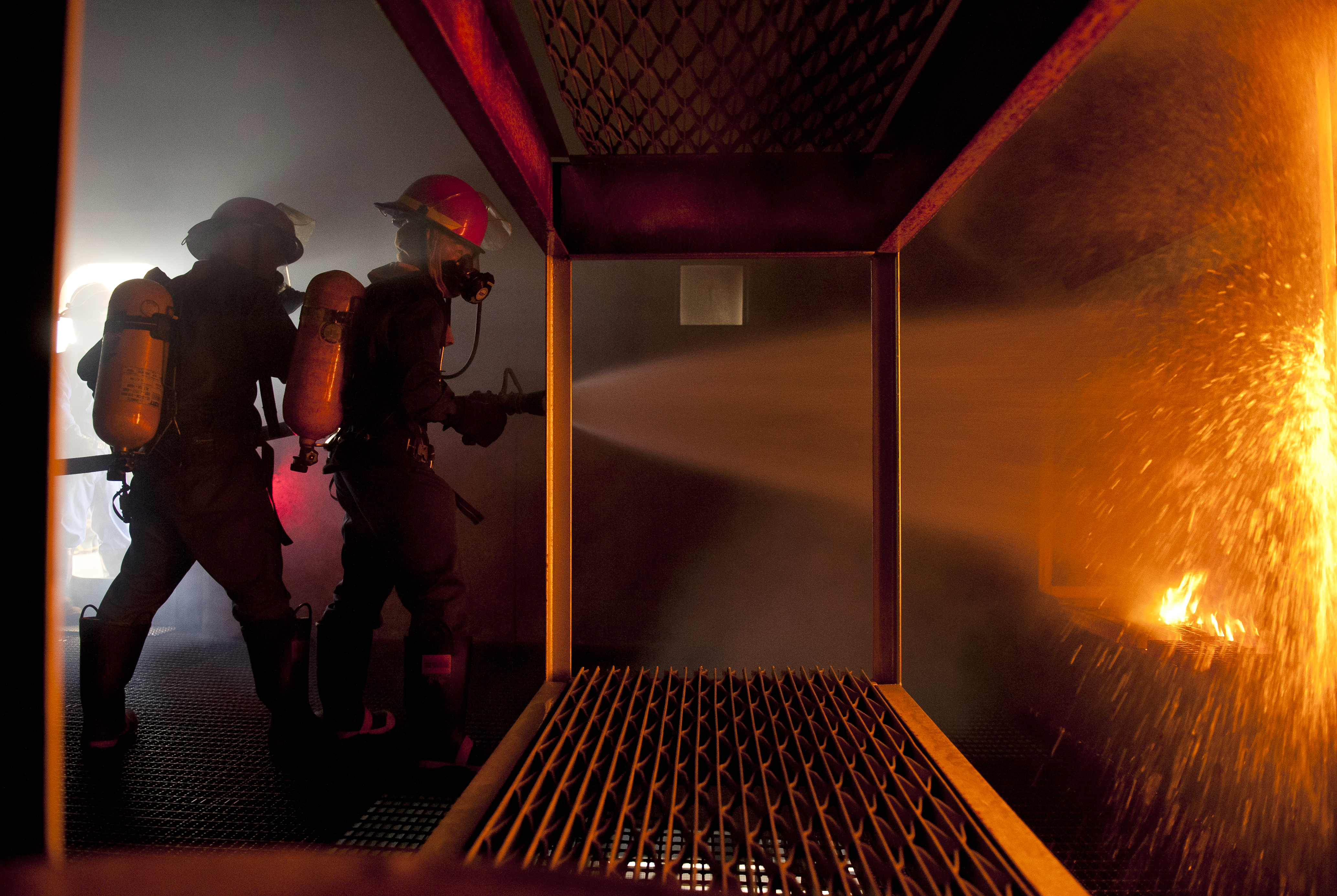 SAN DIEGO (Aug. 24, 2011) Japan Maritime Self-Defense Force sailors fight a simulated berthing fire while training at the Center for Naval Engineering Firefighting School at Naval Base San Diego. Twenty-four Japan Maritime Self-Defense Force sailors assigned to the Atago-class guided-missile destroyer JS Ashigara (DDG 178) received damage control training from their U.S. Navy counterparts during two days of instruction at the facility. (U.S. Navy photo by Mass Communication Specialist 2nd Class James R. Evans/Released)